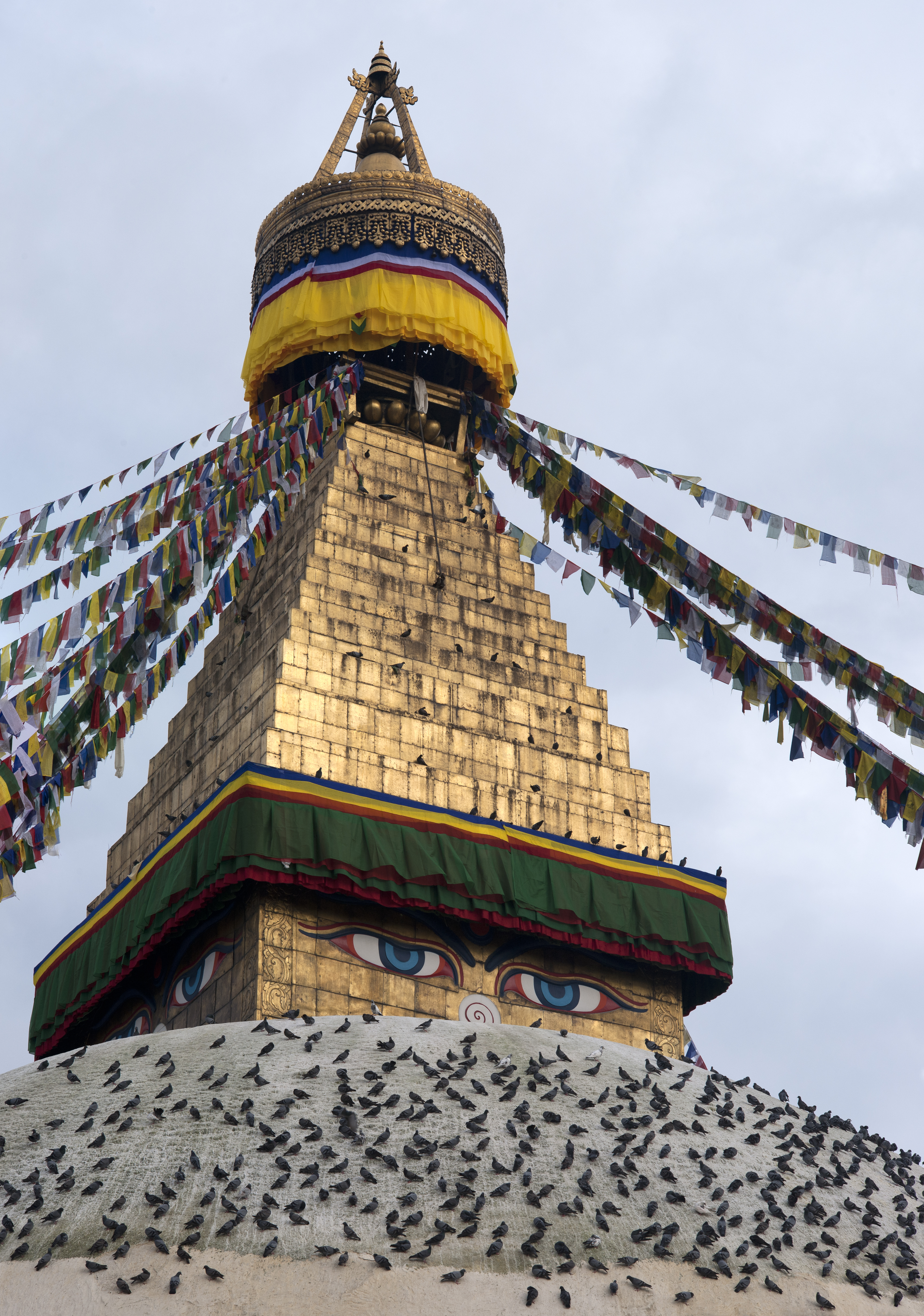 Boudhanath stupa, Kathmandu, Nepal.